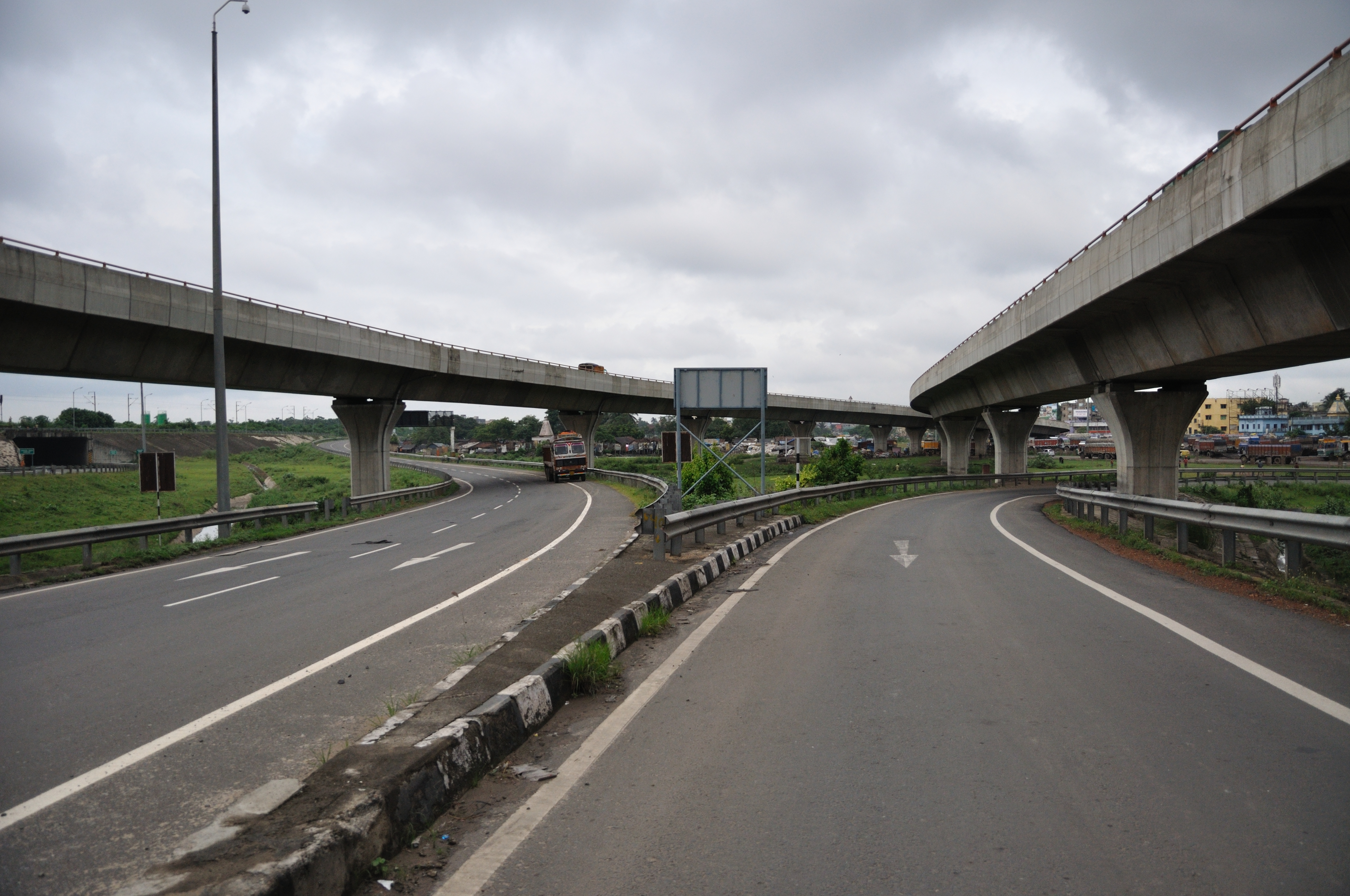 Belghoria Expressway is arterial road linking Dakshineswar and Jessore road near Netaji Subhash Chandra Bose International Airport or Dum Dum Airport. This media file is uploaded with India loves Wikipedia event.